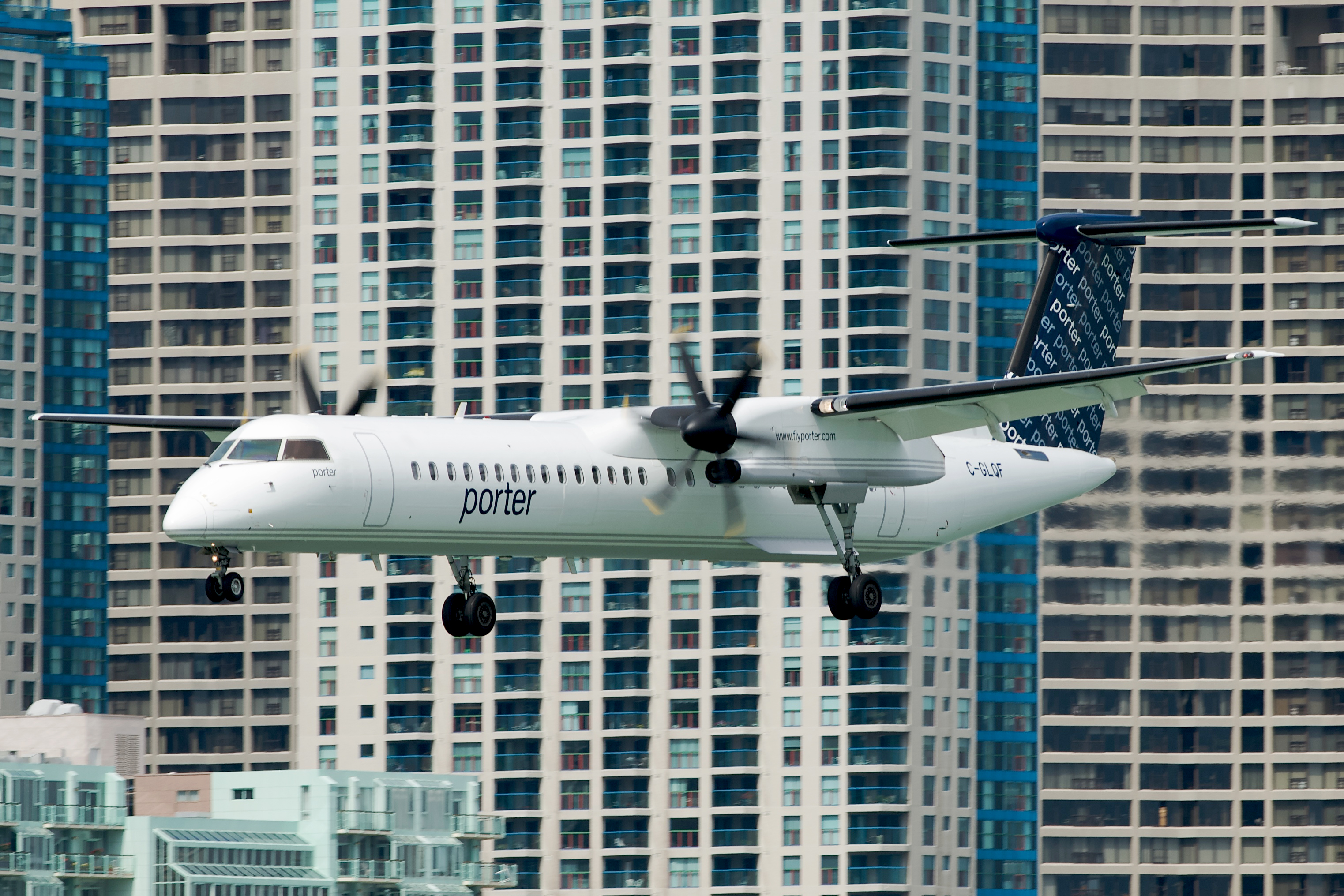 Porter Airlines Bombardier Q400 landing at Billy Bishop Toronto City Airport (YTZ) in July 2008.